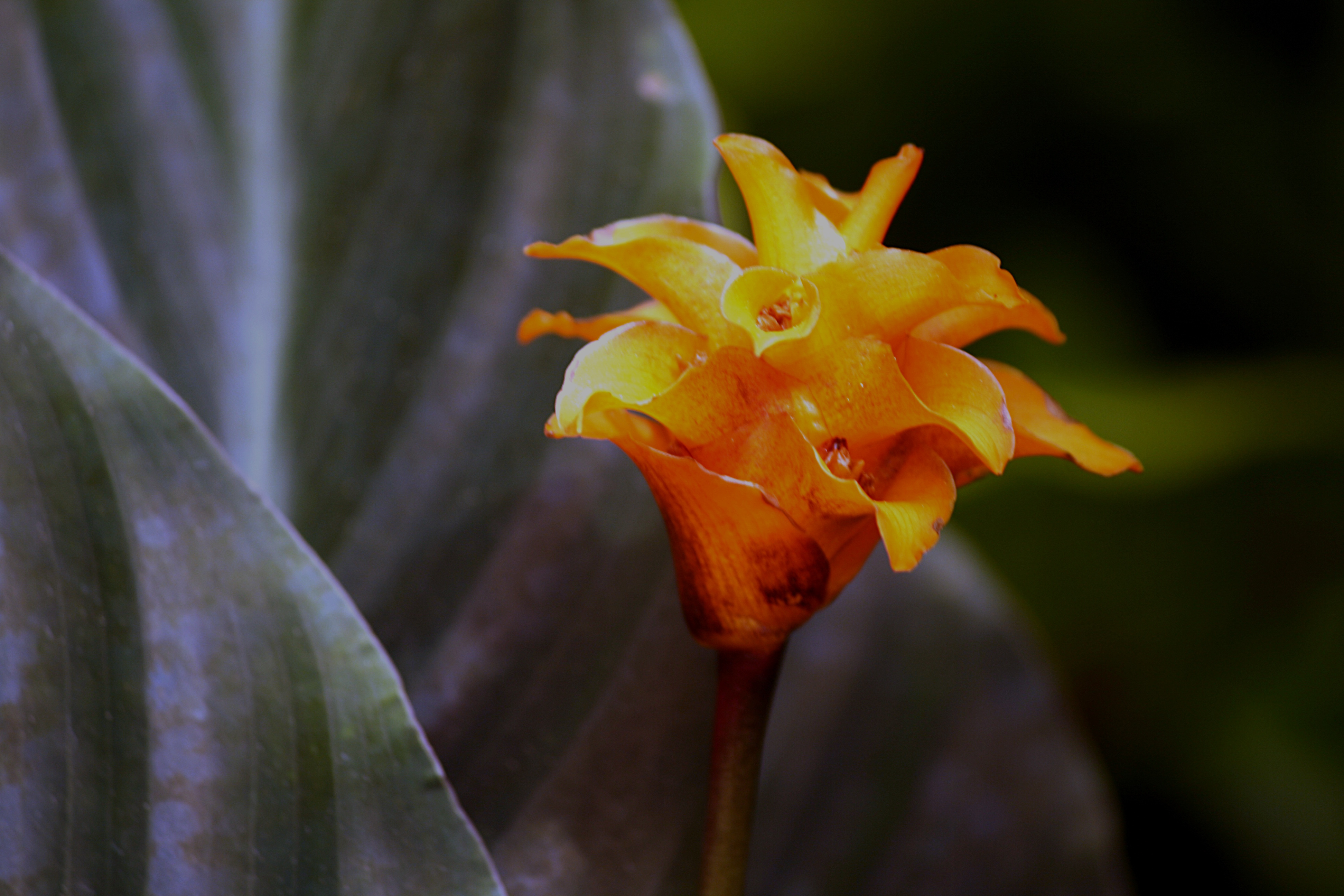 Korbmarante - Calathea crocata